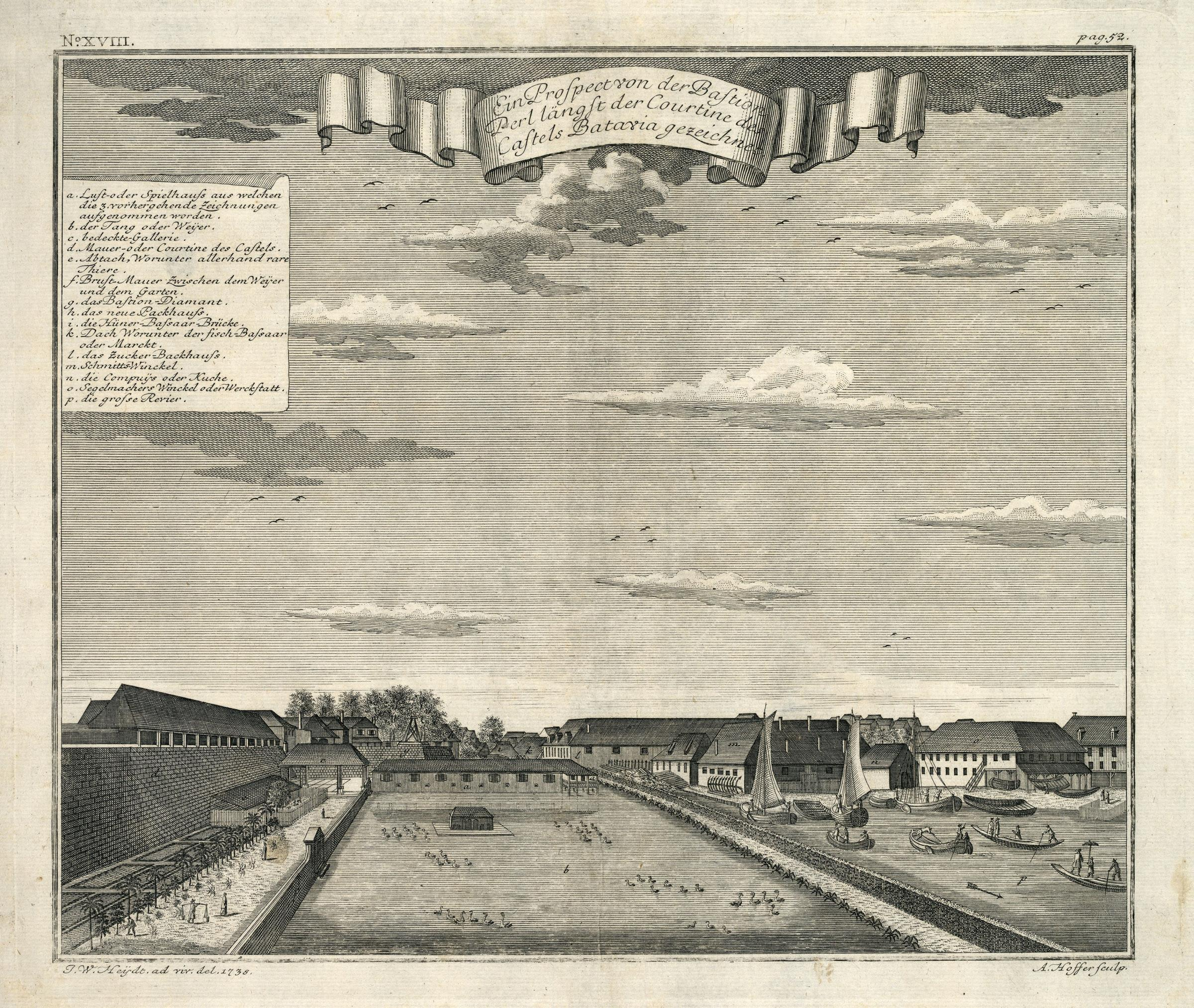 View of the Parel bastion, a bastion of Batavia Castle. Ein Prospect von der Bastion Perl längst der Courtine des Castels Batavia Gezeichnet. Top left: XVIII.. Top right: pag. 52. Key: a. Lust oder Spielhauss aus welchen die 3. vorhergehende Zeichnungen aufgenommen worden. / b. der Tang oder Weijer. / c. bedeckte-Gallerie. / d. Mauer-oder Courtine des Castels. / e. Abtach, Worunter allerhand rare Thiere. / f. Brust-mauer zwischen dem Weijer und dem Garten. / g. das Bastion-Diamant. / h. das neue Packhauss. / i. die Hüner-Bassaar-Brücke. / k. Dach Worunter der fisch-Bassaar oder Marckt. / l. das Zucker-Backhaufs. / m. Schmitts-Winckel. / n. die Compuijs oder Kuche. / o. Segelmachers Winckel oder Werkcstatt. / p. die grosse Revier.. The print: Rijksmuseum, inv. nr. RP-P-OB-47-414 is based on this image.